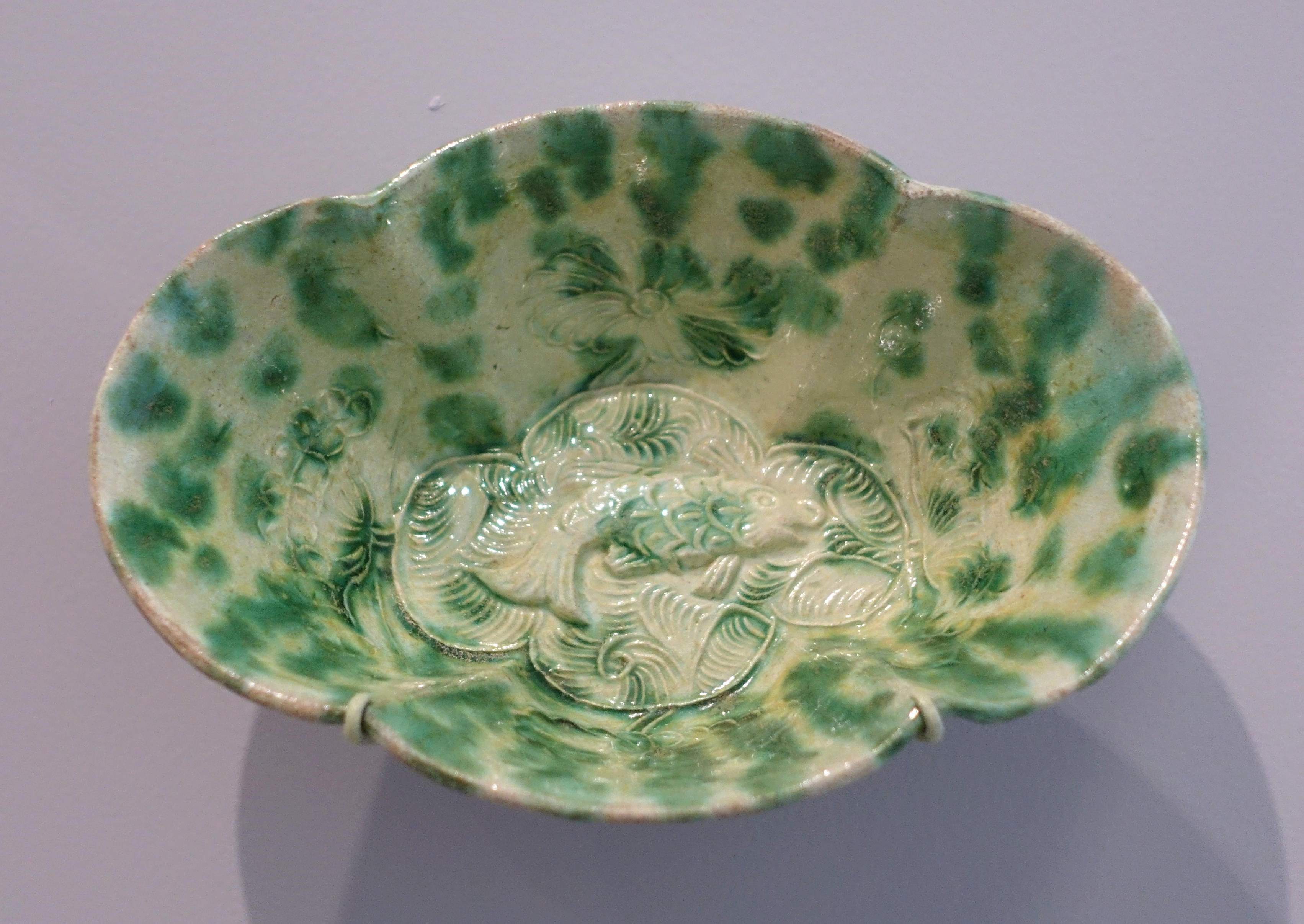 Exhibit in the Arthur M. Sackler Museum, Harvard University, Cambridge, Massachusetts, USA. This artwork is in the public domain because the artist died more than 70 years ago.